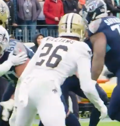 PJ Williams 2019. Image from video Titans Mic'd Up vs. Saints (Week 16) | Sounds of the Game, ~ 00:20.